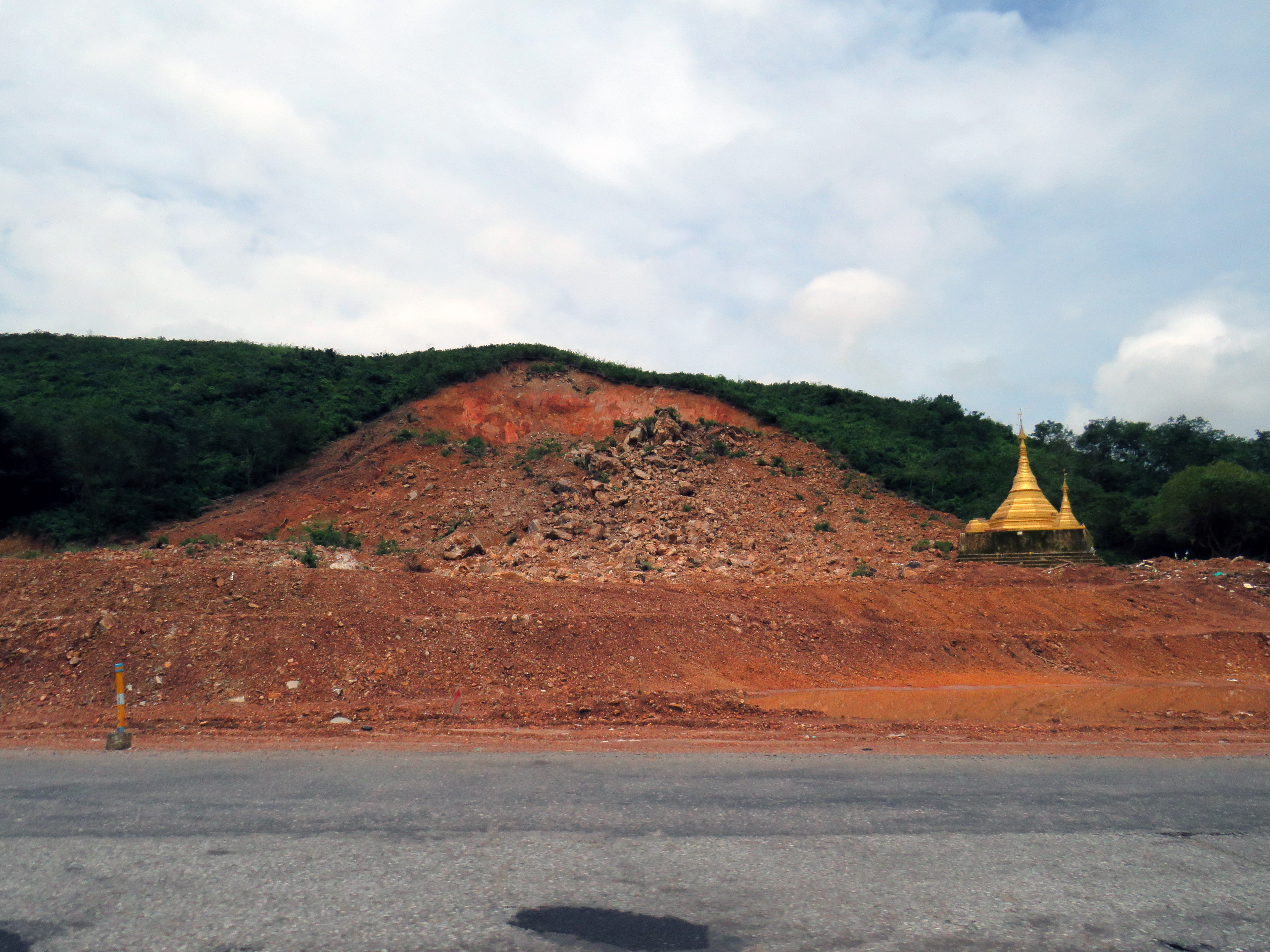 Landslide in Thea Hpyu Kone village, Paung Township